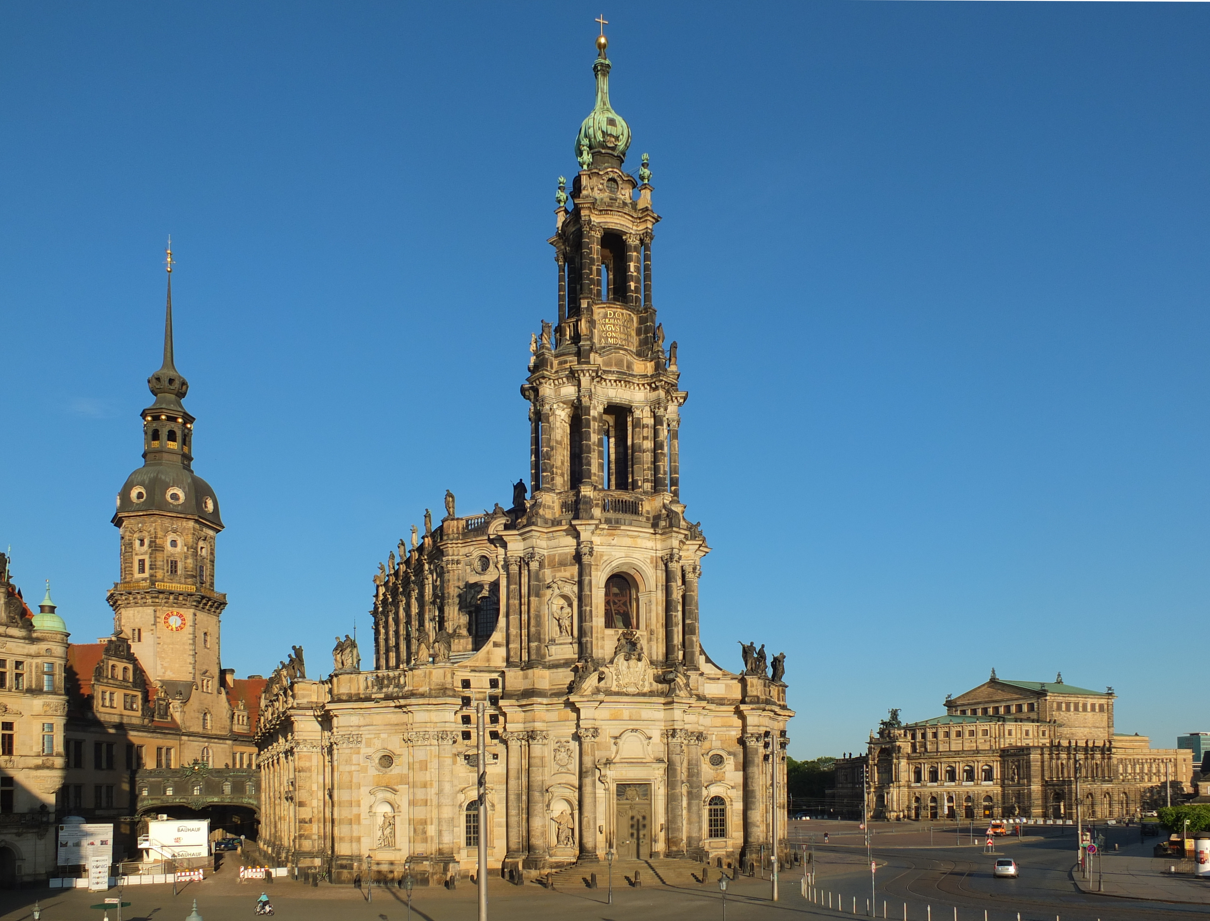 Dresden Cathedral or the Cathedral of the Holy Trinity, Dresden, in German Katholische Hofkirche, in the background the Residenzschloss.